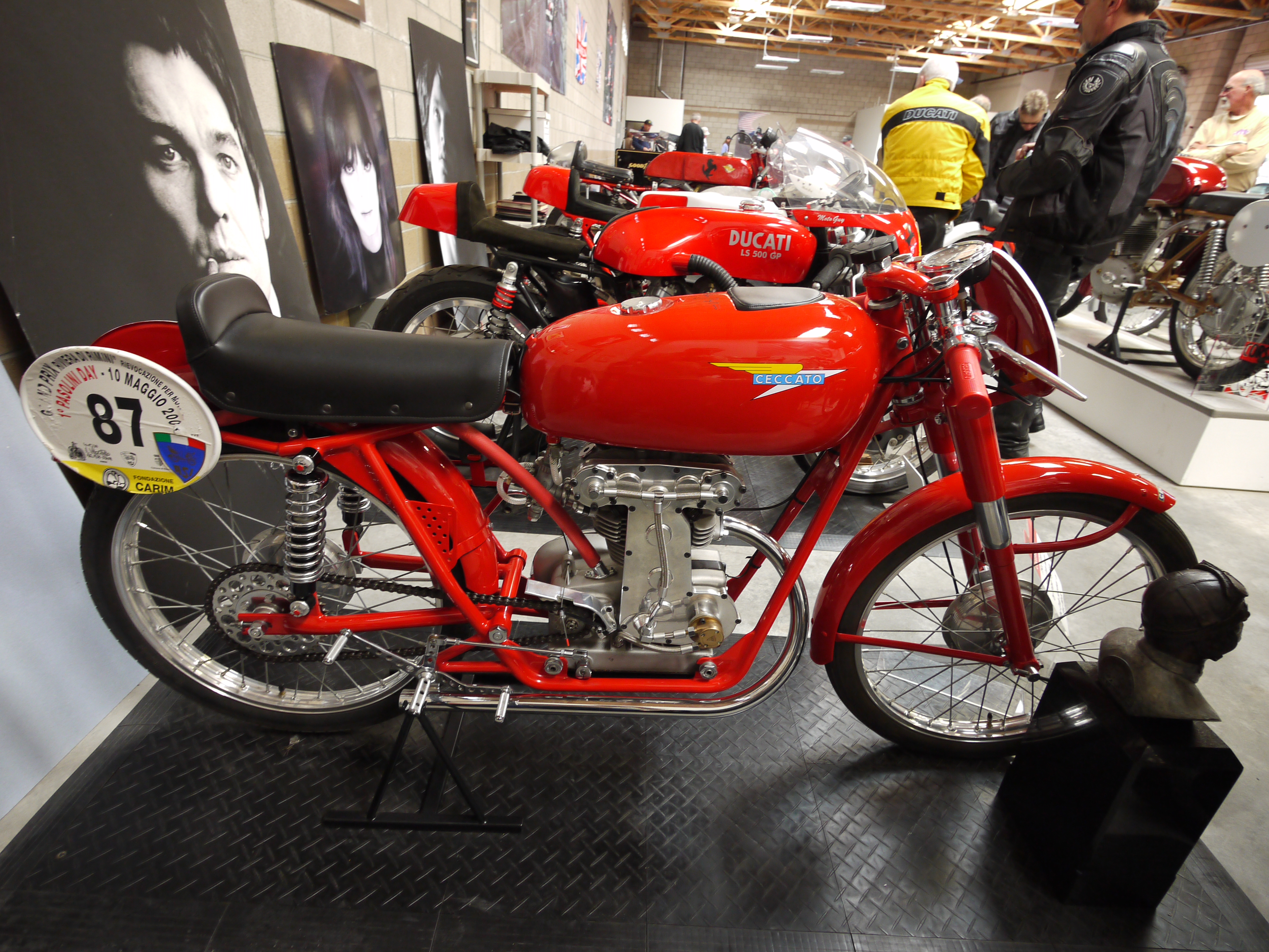 Ceccato 75 Gran Prix DHOC, 1955, factory racer, motor designed by Fabio Taglioni